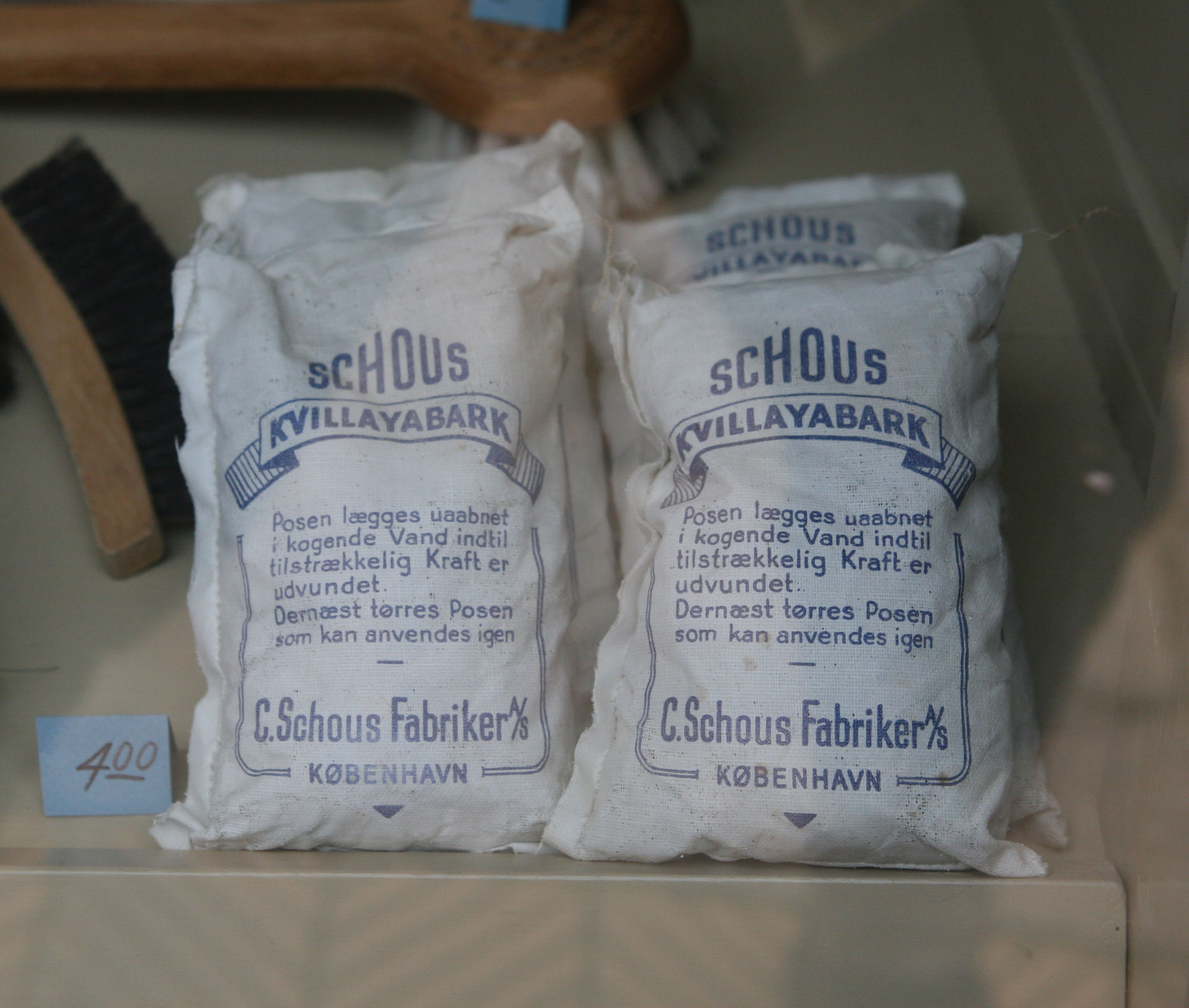 Bags with quillaia bark from Den gamle By in Aarhus